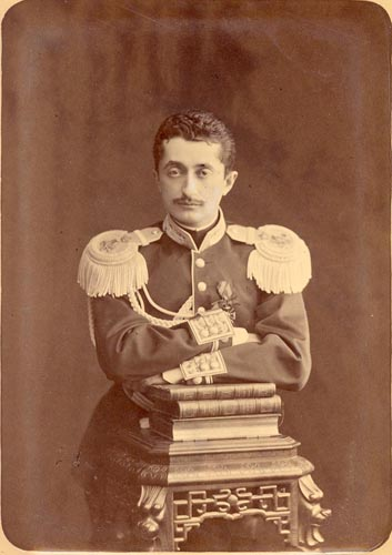 Niko Dadiani, last Prince of Mingrelia; 1847-1903